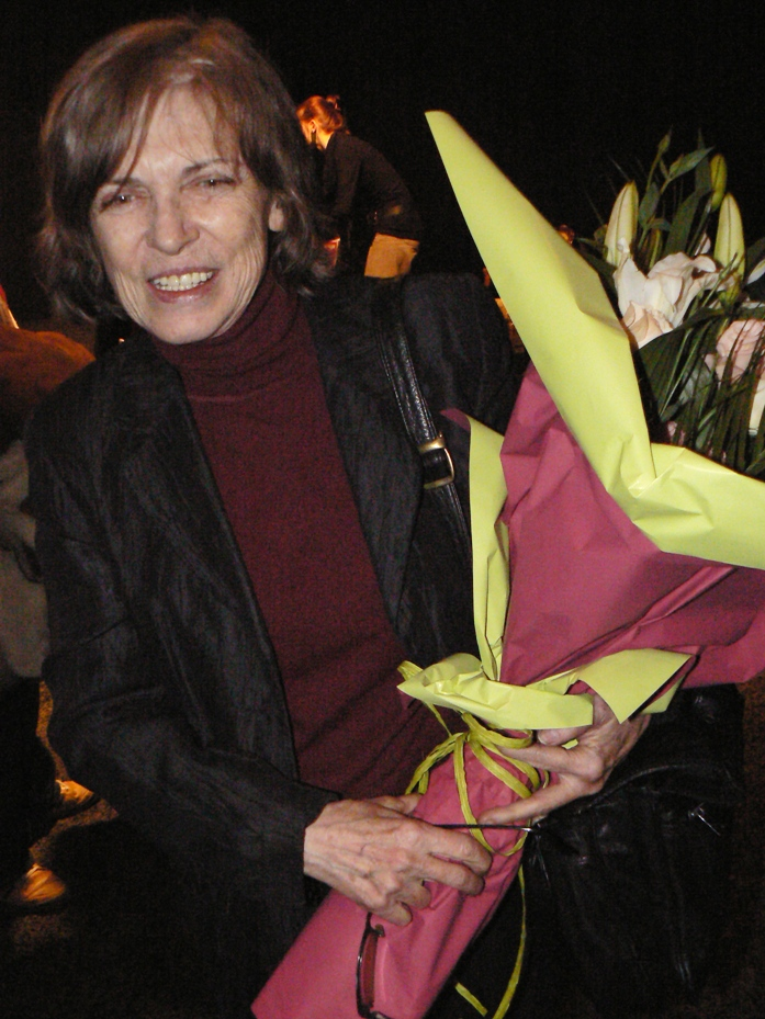 Bulgarian poet Ekaterina Yosifova, laureate of the "Ivan Nikolov" Poetry Prize in 2010